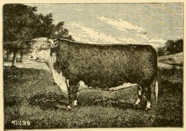 Anxiety 4th, a bull of the Hereford cattle breed that became a cornerstone of that breed in the USA. Bred by T. J. Carwardine